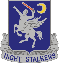 160th Aviation Regiment Distinctive Unit Insignia